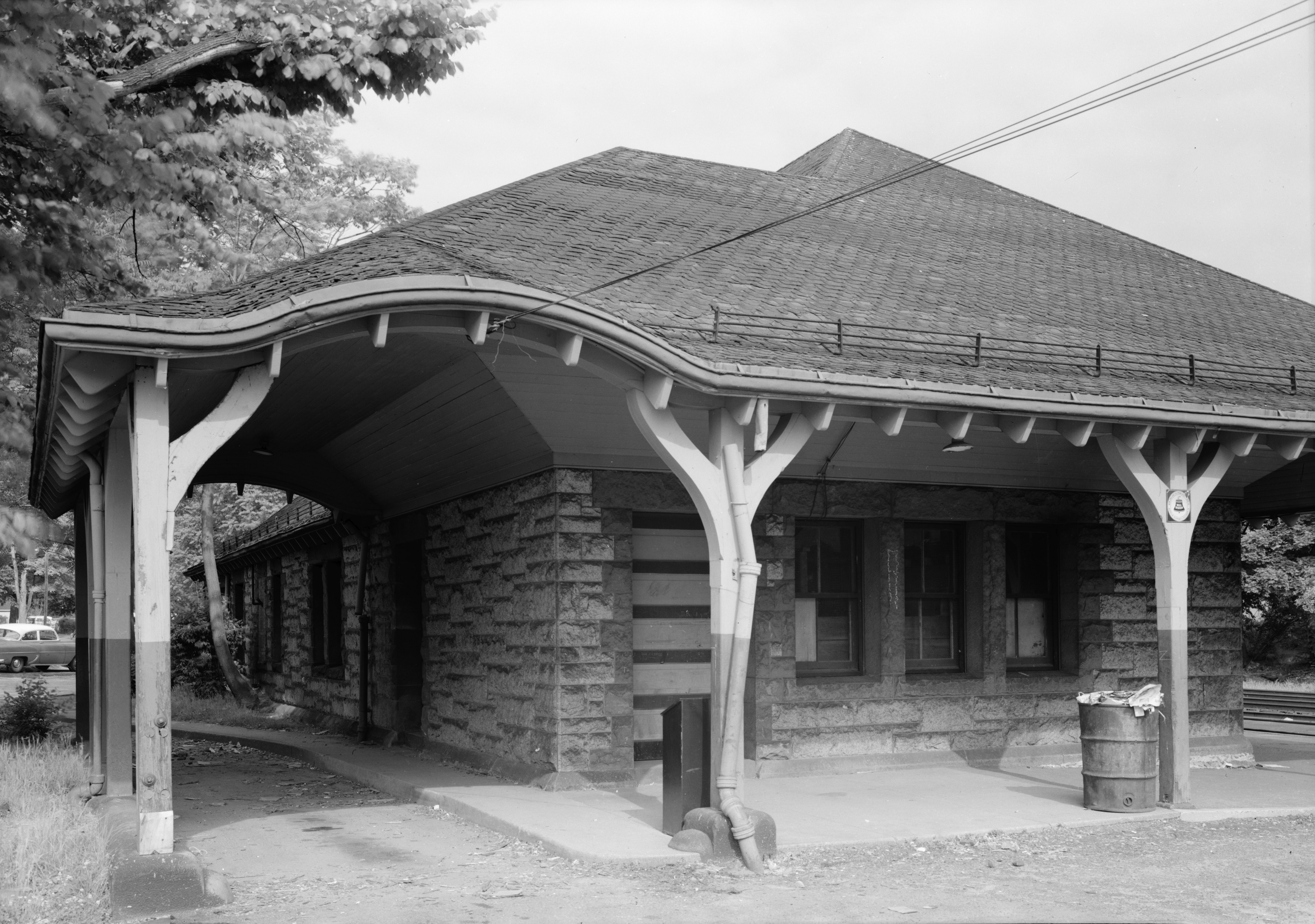 1959 photograph of the 1881 H. H. Richardson depot on the Boston & Albany Railroad in Auburndale, Massachusetts. This view looks roughly west (outbound); the station building is on the south side of the tracks. The building was demolished two years later during construction of the Mass Pike.Original caption: "SOUTH AND EAST ELEVATIONS SHOWING PORTE-COCHERE - Boston & Albany Railroad Station, Auburndale, Middlesex County, MA"